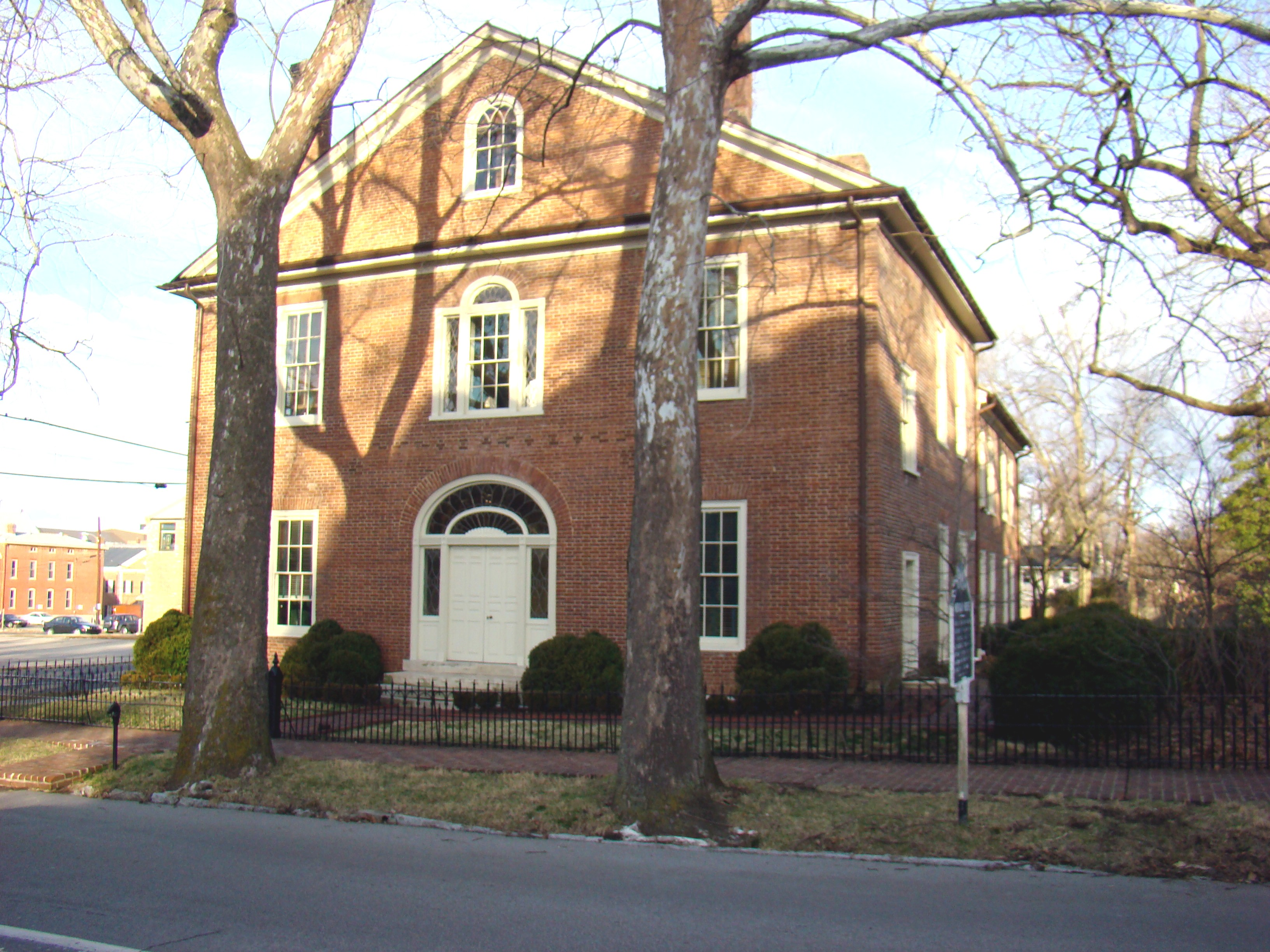 Hunt-Morgan House, located in the Gratz Park Historic District in Lexington, Kentucky, was built by John Wesley Hunt in 1814. Other famous residents include Confederate General John Hunt Morgan and Noble Prize recipient Dr. Thomas Hunt Morgan. The current address is 201 N. Mill Street, Lexington, Kentucky.